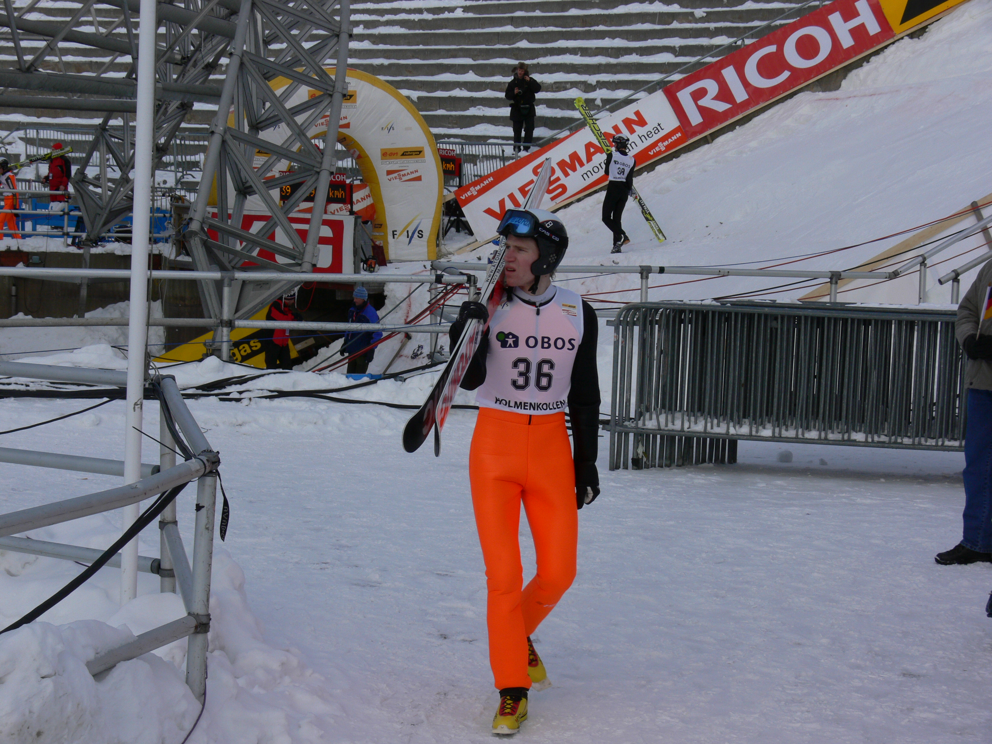 From the 2006 World Cup ski jumping event in Holmenkollen. From the 2006 World Cup ski jumping event in Holmenkollen.